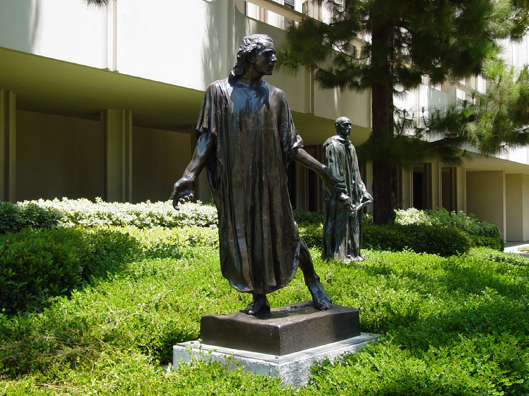 In the courtyard surrounding LACMA (Los Angeles County Museum of Art), there are a variety of Rodin sculptures. Note the large hands on the sculpture, typical of Rodin.